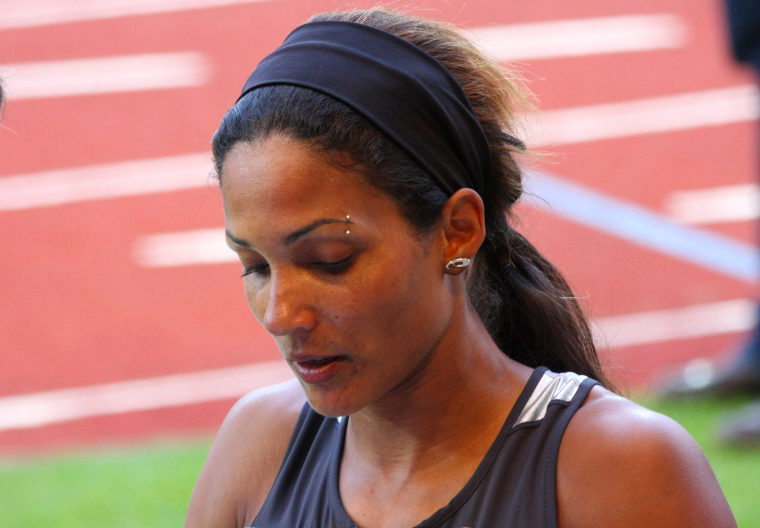 christine arron 2